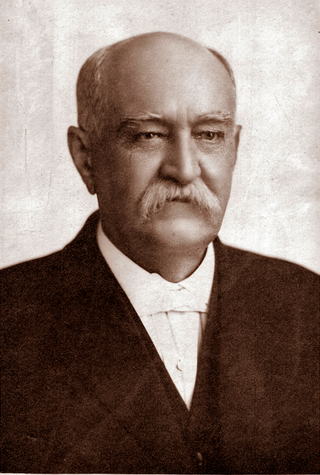 Reuben Francis Kolb served as Alabama's Commissioner of Agriculture from 1886-90. A prominent member of the Farmers' Alliance, he ran for governor as a Populist unsuccessfully in 1892 and 1894. A successful farmer, Kolb was one of the early pioneers of peach production in Alabama during the 1880s.